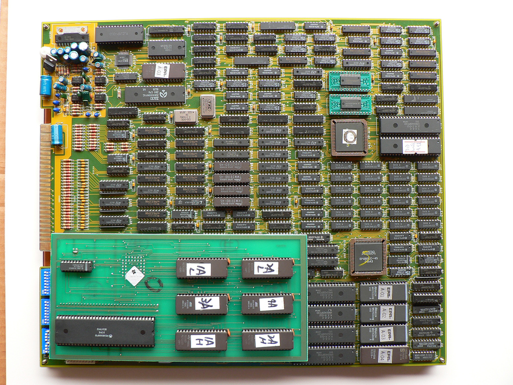 Arcade PCB of Super Street Fighter 2 clone arcade board0713 01 videoGames